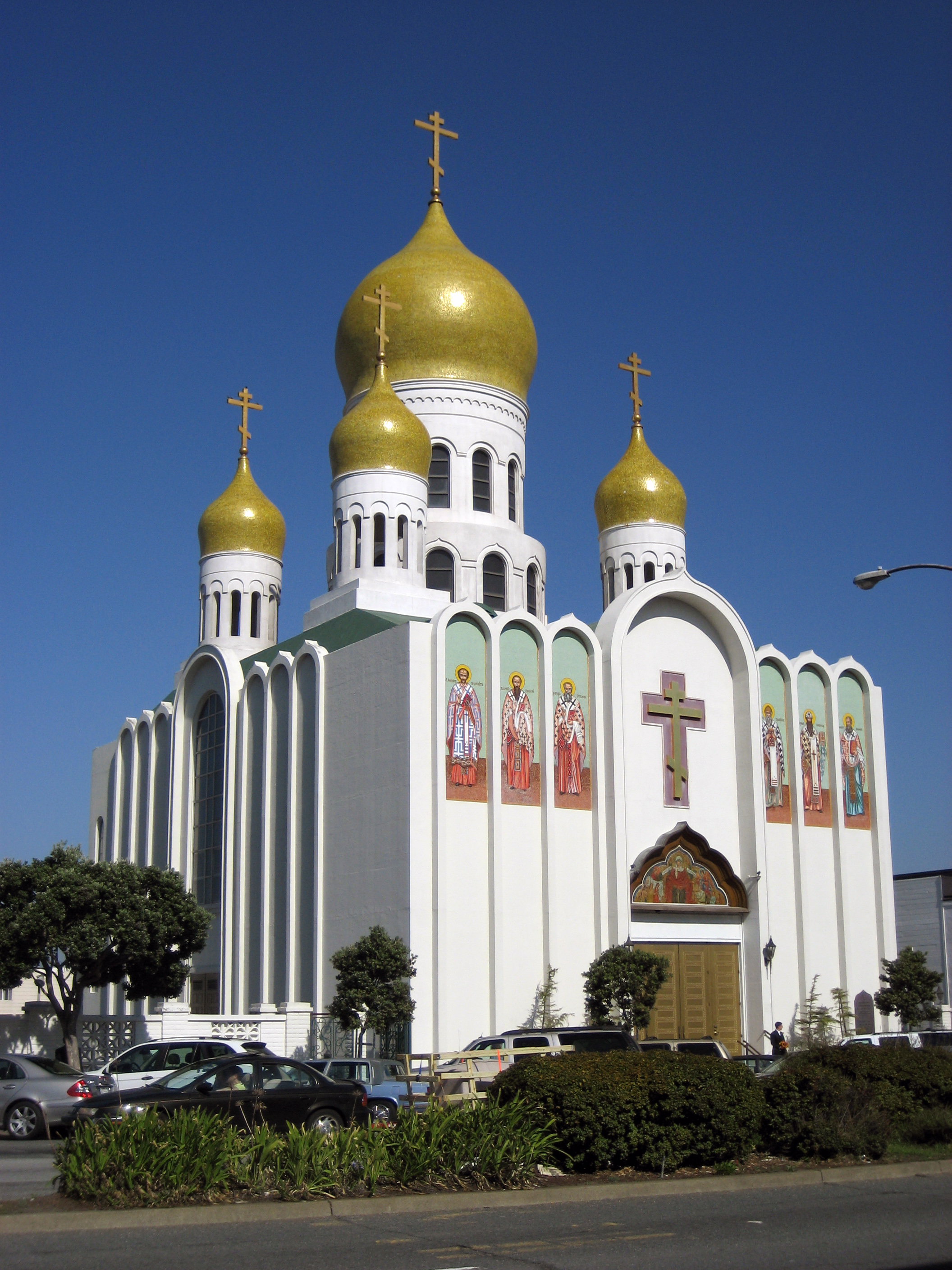 Russian Orthodox Church on Geary